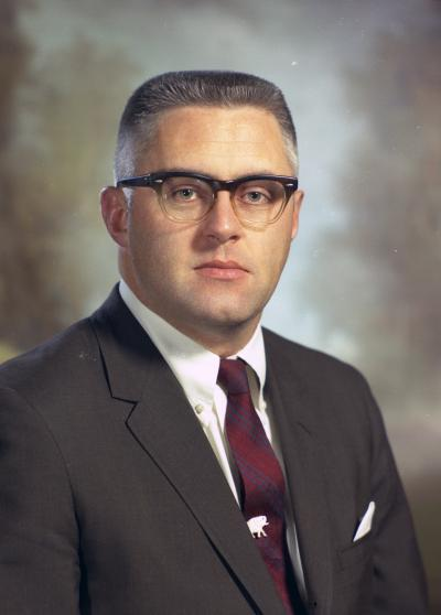 Senator Brian J. Lewis, 1969